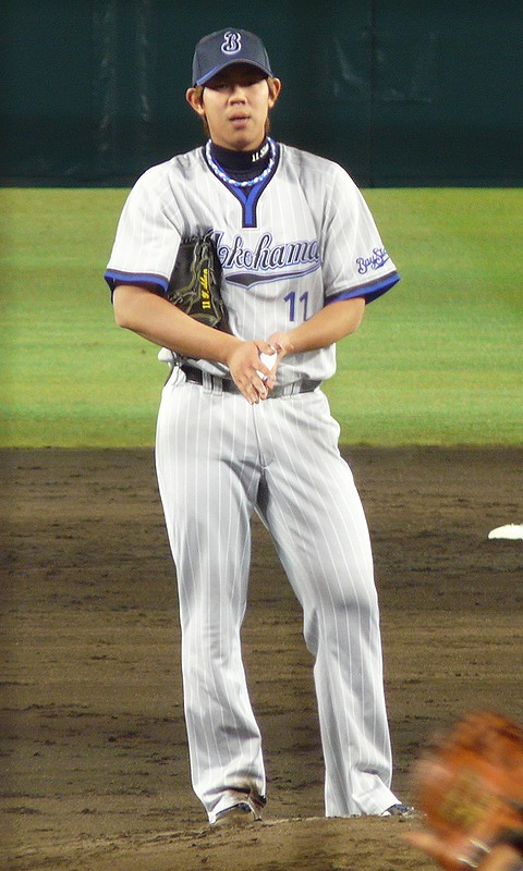 Shun Yamaguchi, pitcher of the Yokohama BayStars, at Hanshin Koshien Stadium.